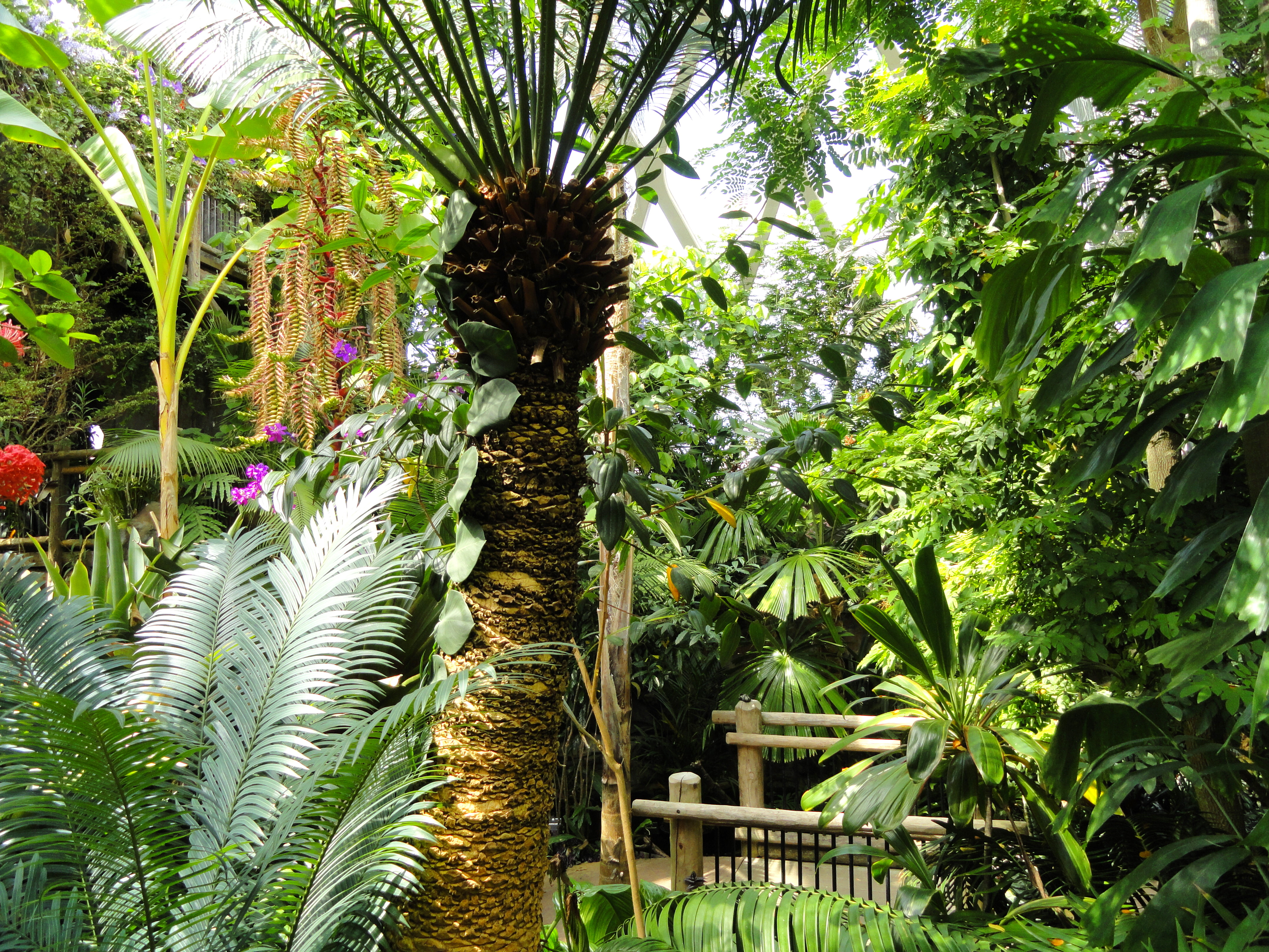 General view of Denver Botanic Gardens, 1007 York Street, Denver, Colorado, USA.